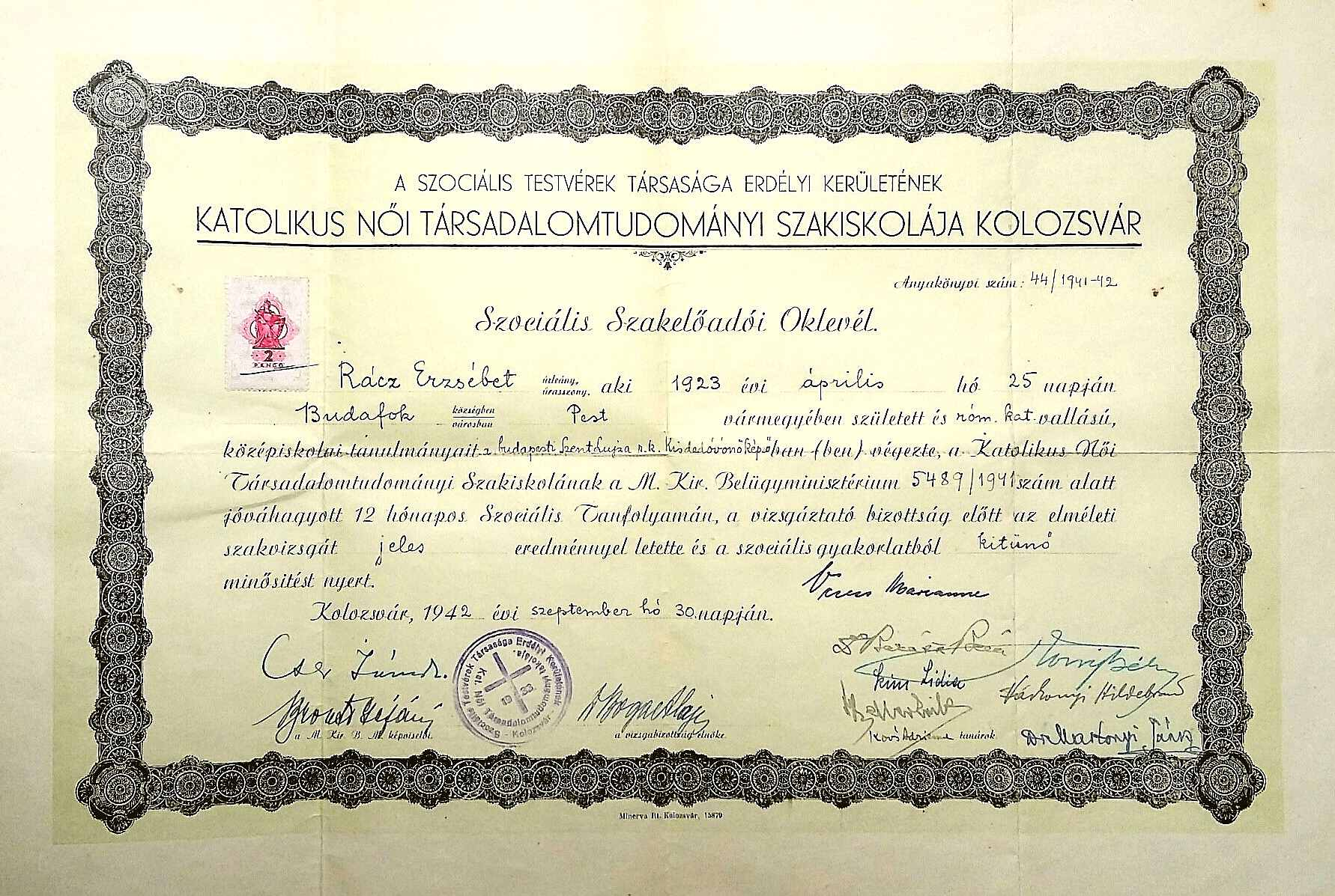 Hungarian diploma in social care (1942)